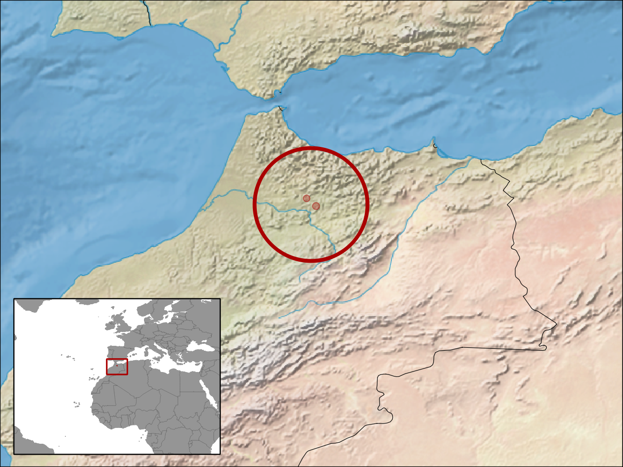 geographic distribution of Chalcides ebneri